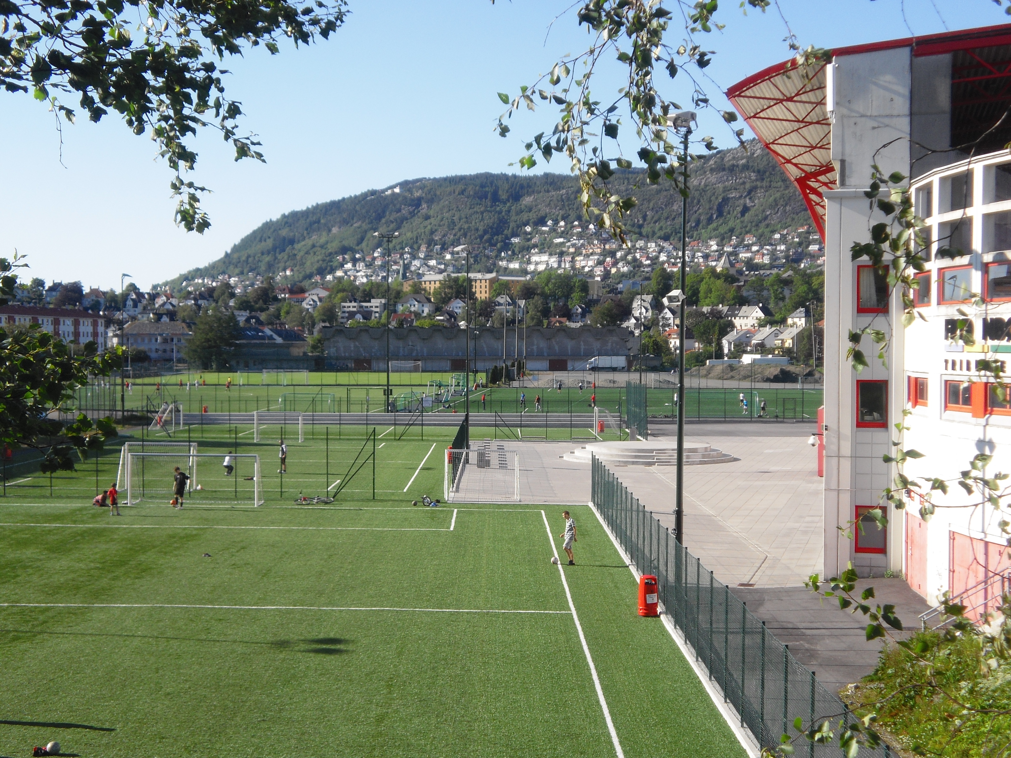 Nymarksbanene in Bergen, Norway